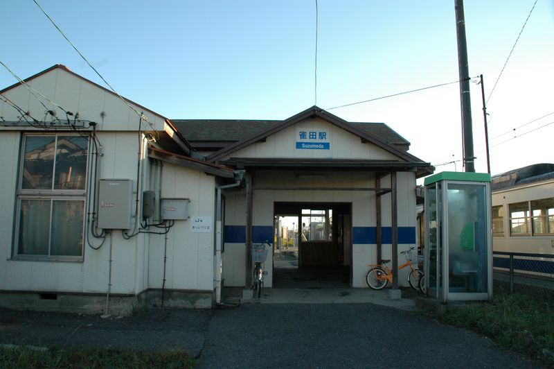 West Japan Railway, Onoda Line, Suzumeda Station. photo by 2005.10.16